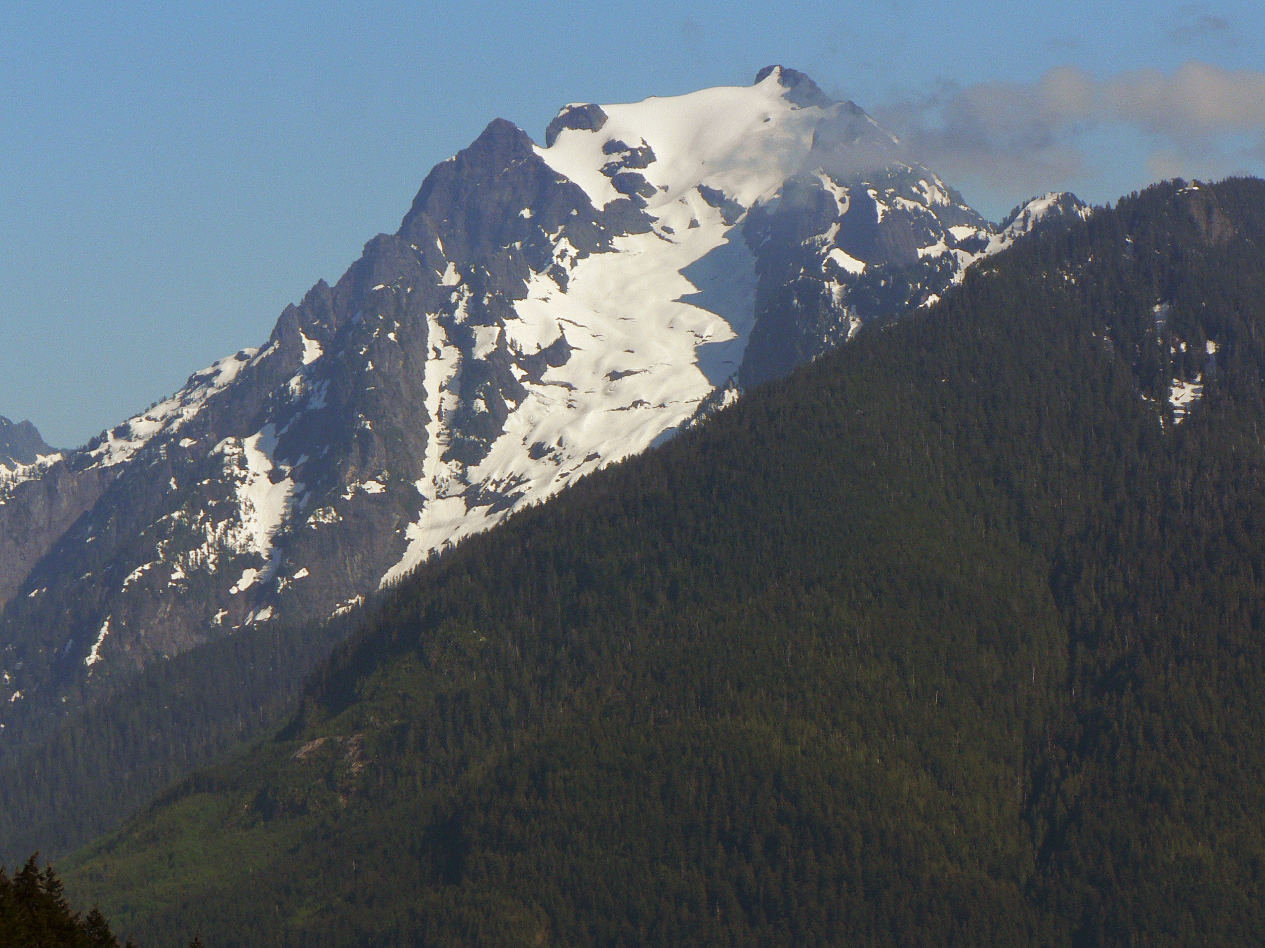 Whitehorse Mountain (6840+ feet, 2085+ meters)